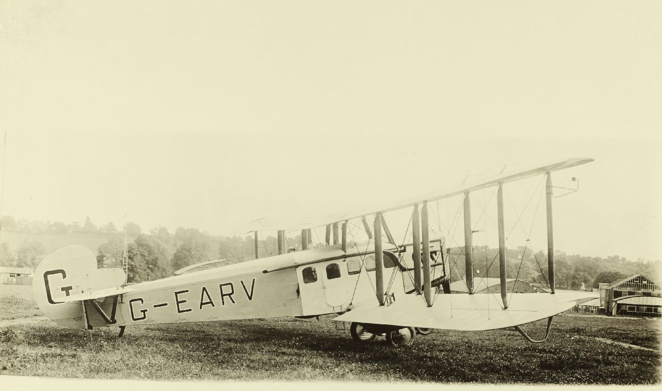 Westland Limousine III, 5-seat plane, built in UK about 1920